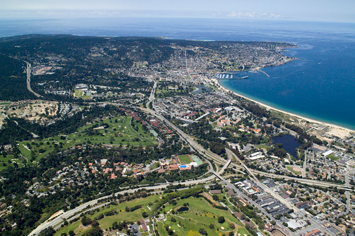 Aerial view of City of Monterey and the Monterey Peninsula — on the central California coast.